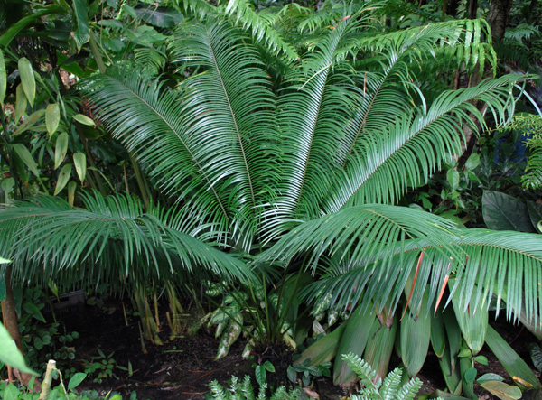 Cycas wadei in the Botanical Garden of the City of Prague